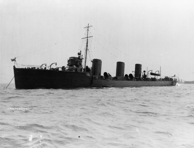 Photograph of British destroyer HMS Cossack.